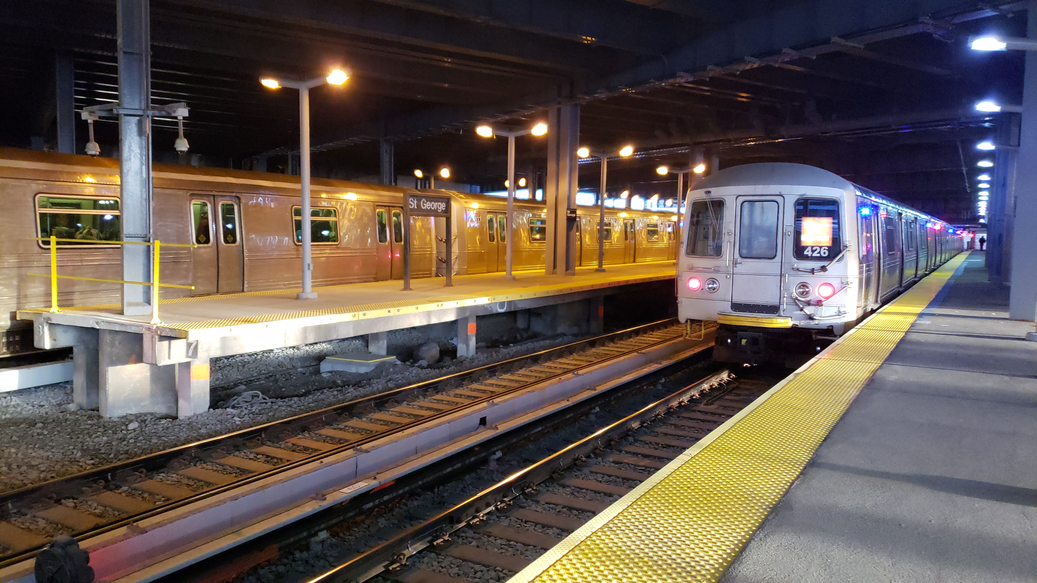 Staten Island Railway R44 Car parked at St. George Terminal